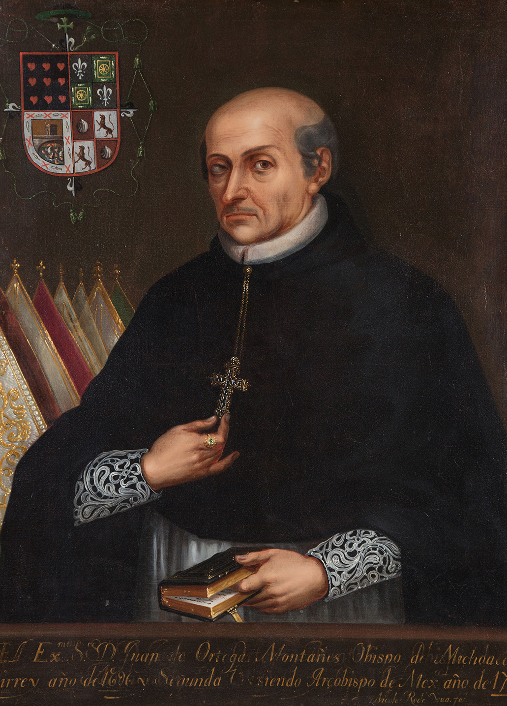 Viceroy and Archibishop Juan de Ortega y Montañés